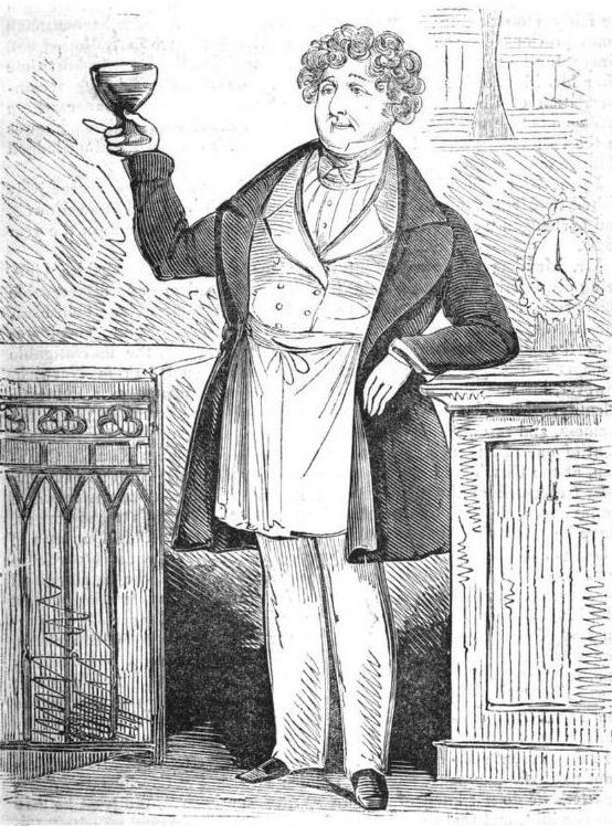 Print of the comedian Thomas Manders (1797-1859) from 1838